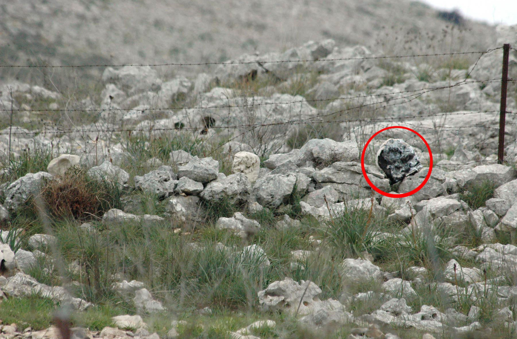 February 5, 2007 For the first time since the end of the 2006 conflict with Hezbollah in Lebanon, several explosive devices camouflaged as rocks planted on the international border with Lebanon in the area of Avivim, were uncovered by IDF forces.